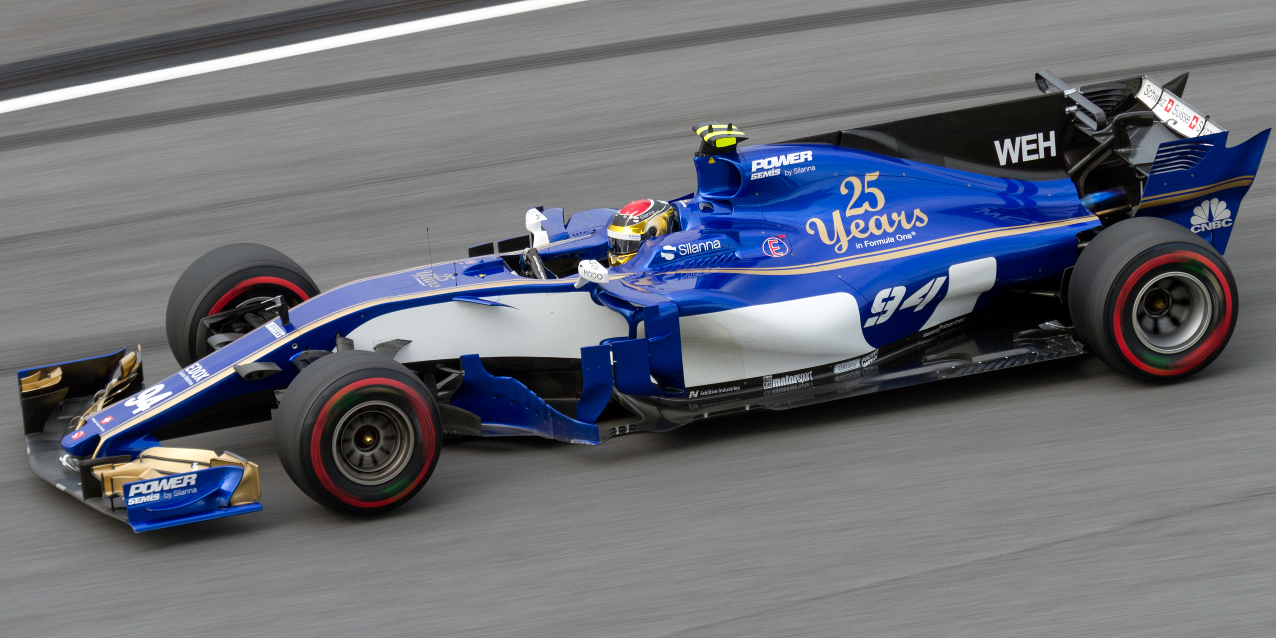 Formula One 2017 Rd.15 Malaysian GP: Pascal Wehrlein (Sauber)